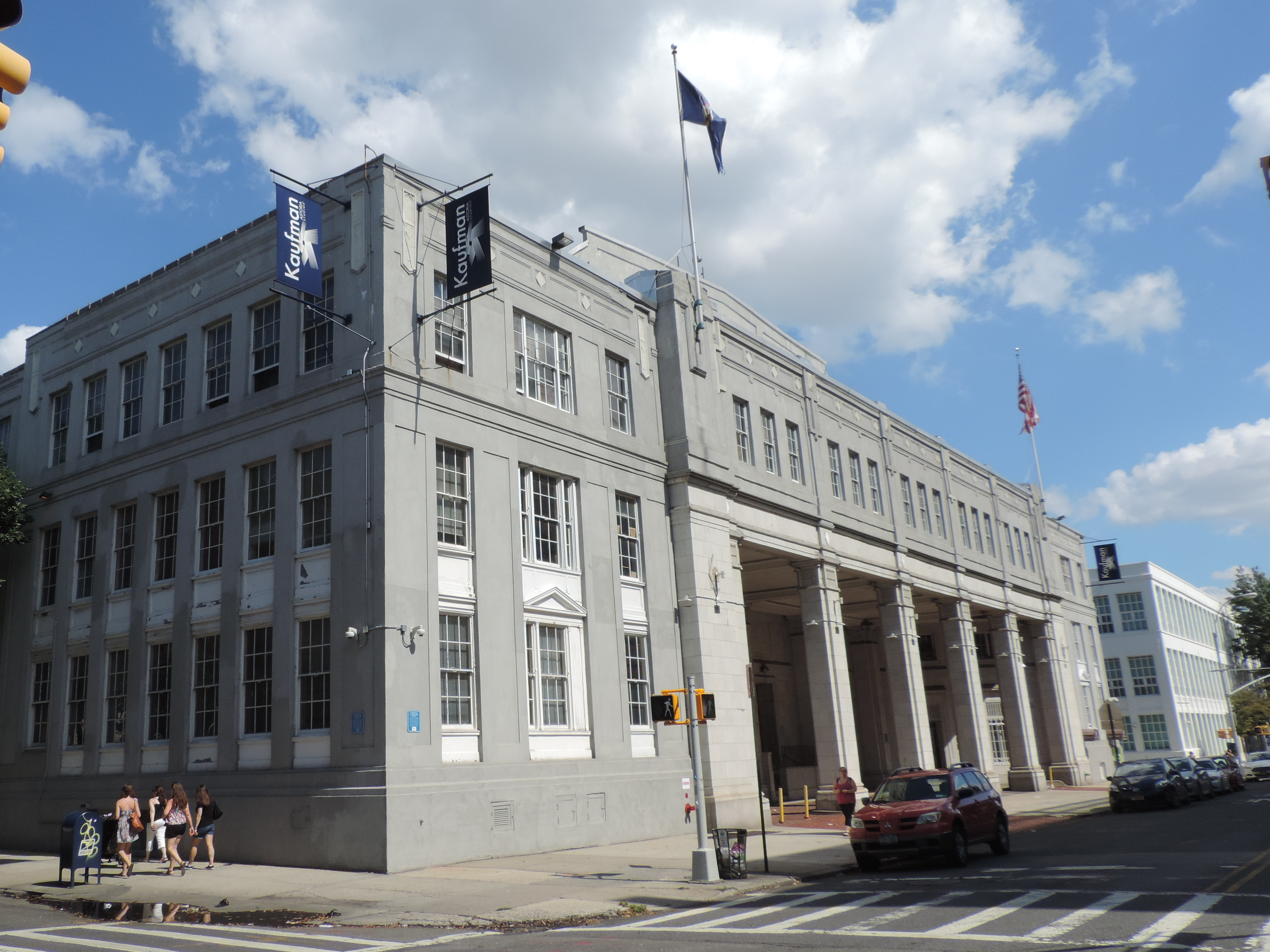 Looking east across 35th Avenue and 35th Street studio building on a partly cloudy late morning.